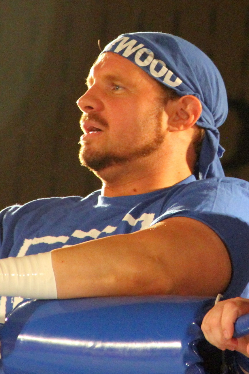 Nova (left) and The Blue Meanie at Chikara's King of Trios show in September 2015.